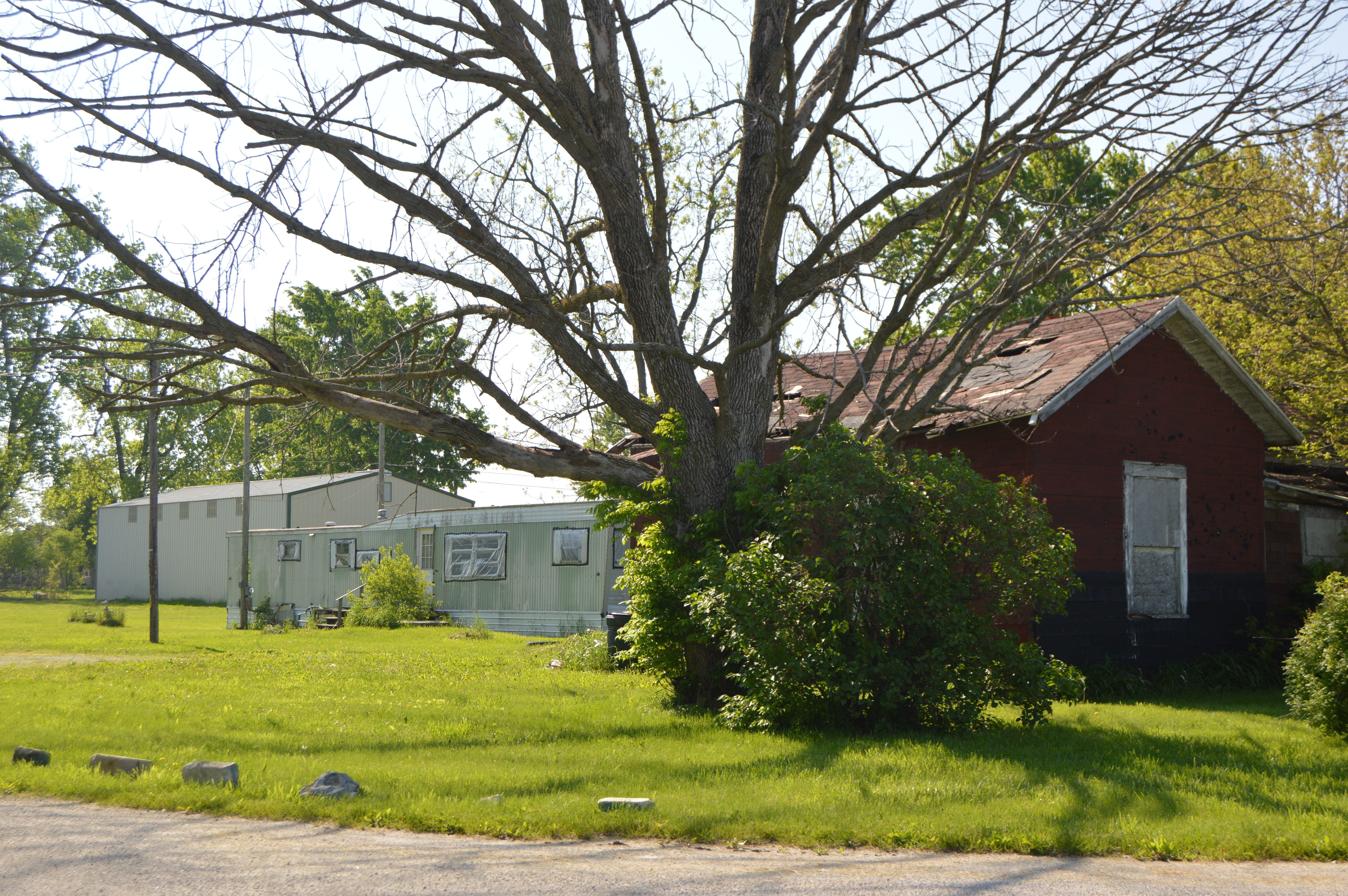 Houses east of Second Street in Hatton, Ohio, United States.